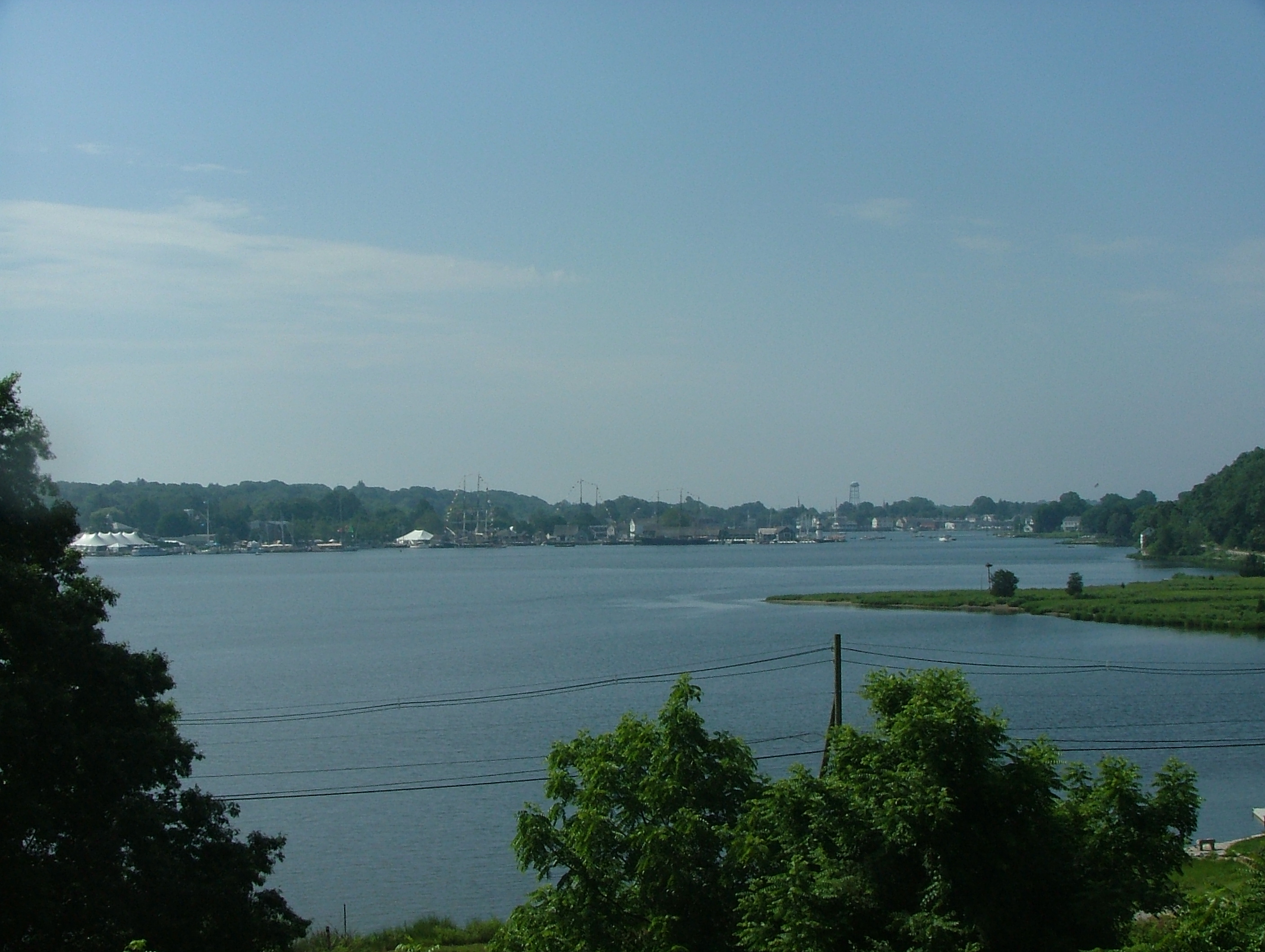 View of Mystic River, Connecticut from I-95.